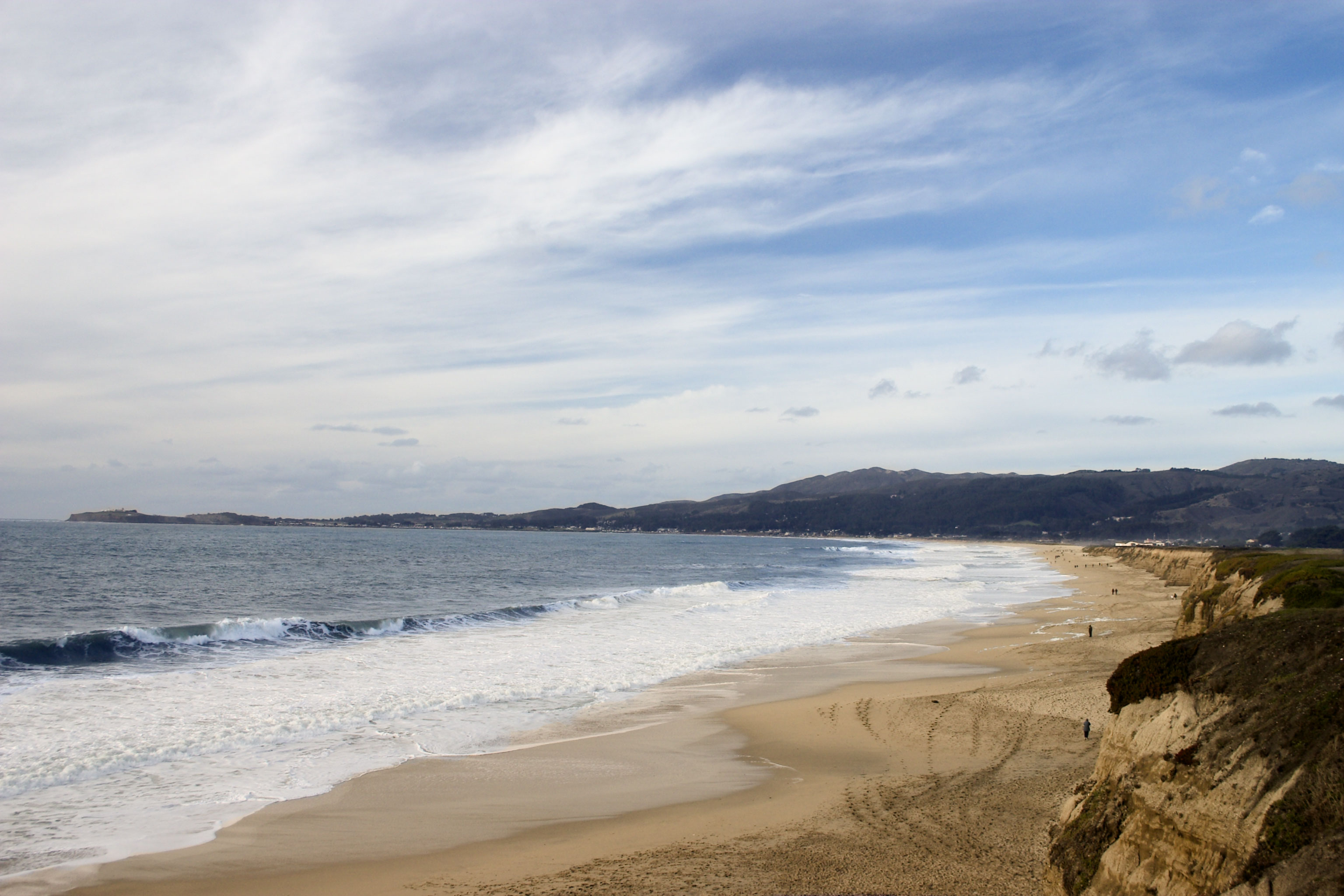 Half Moon Bay State Beach in Half Moon Bay California. Photo by Sean O'Flaherty aka Seano1